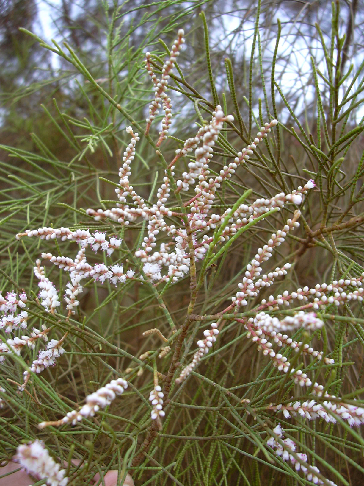 Tamarix aphylla (flowers). Location: Kahoolawe, LZ1